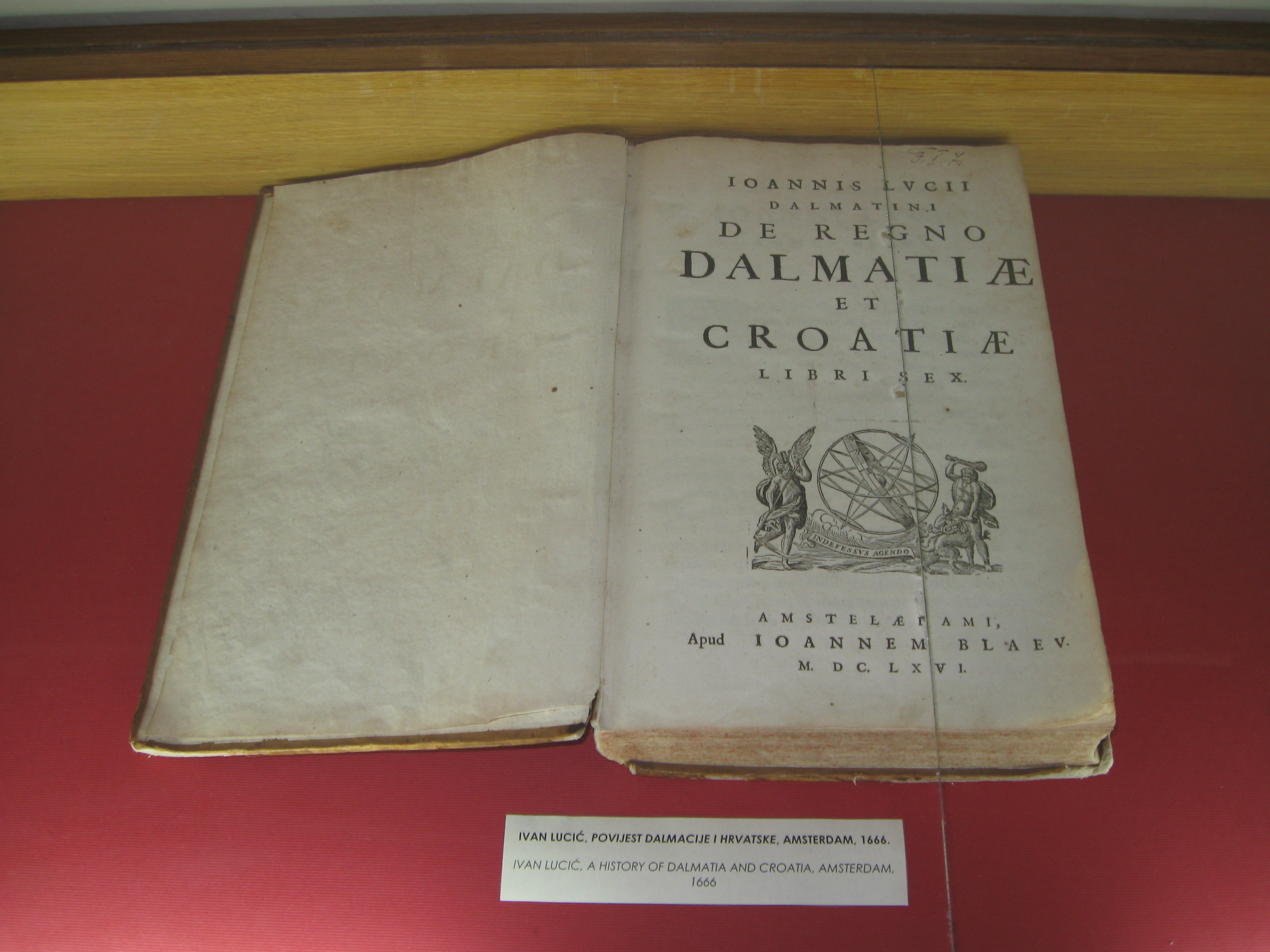 Ivan Lučić. De regno Dalmatiae et Croatiae (The Kingdom of Dalmatia and Croatia), Amsterdam, 1666. Trogir City Museum. Trogir, Croatia.